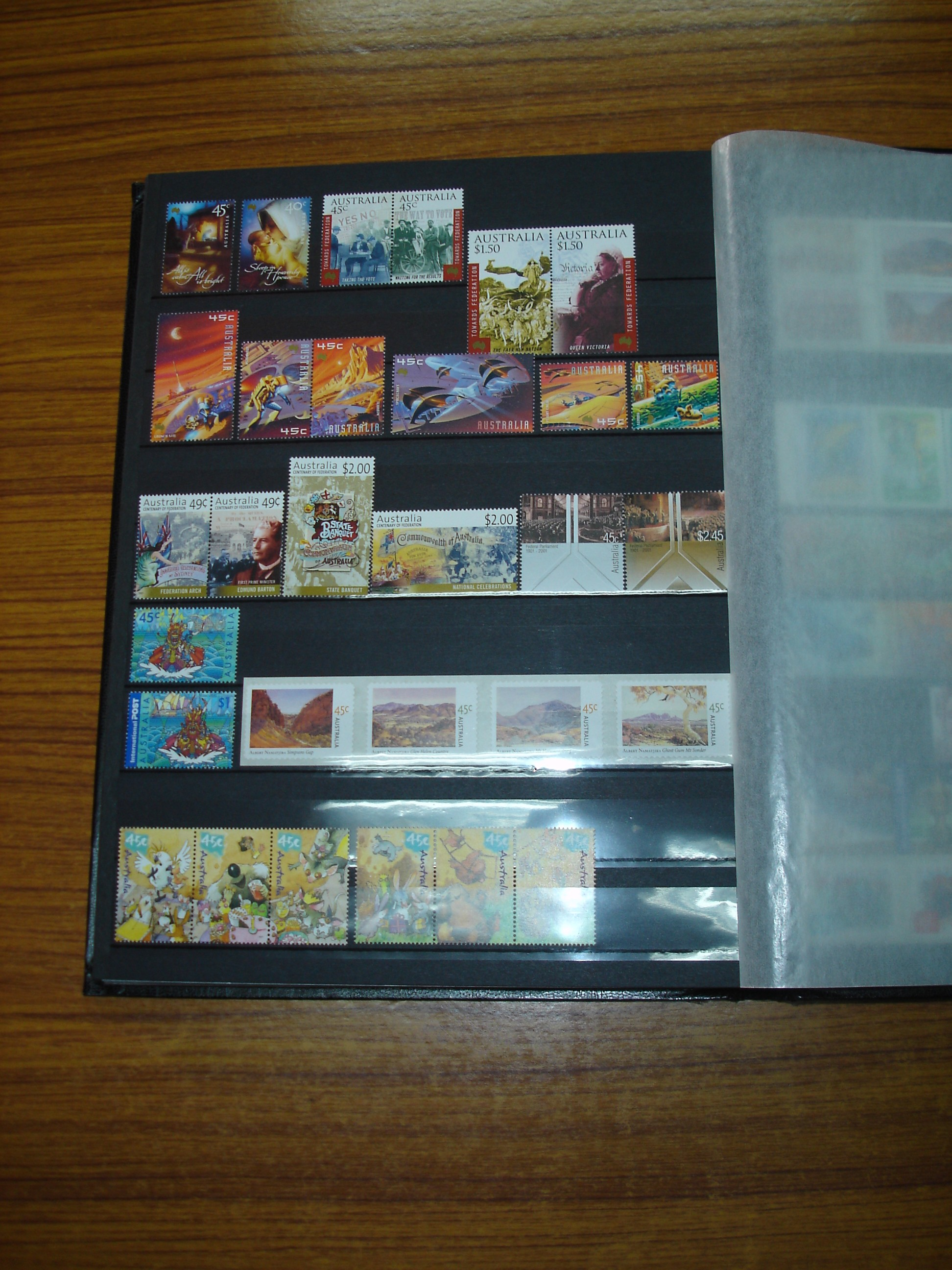 Photo of the inside of a stamp stock book containing mint Australian stamps